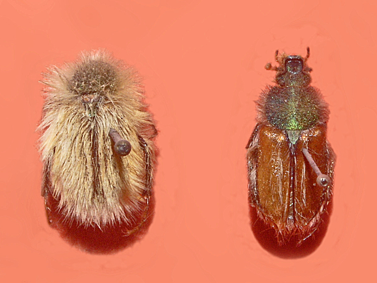 Pygopleurus vulpes, male and female. Museum specimen